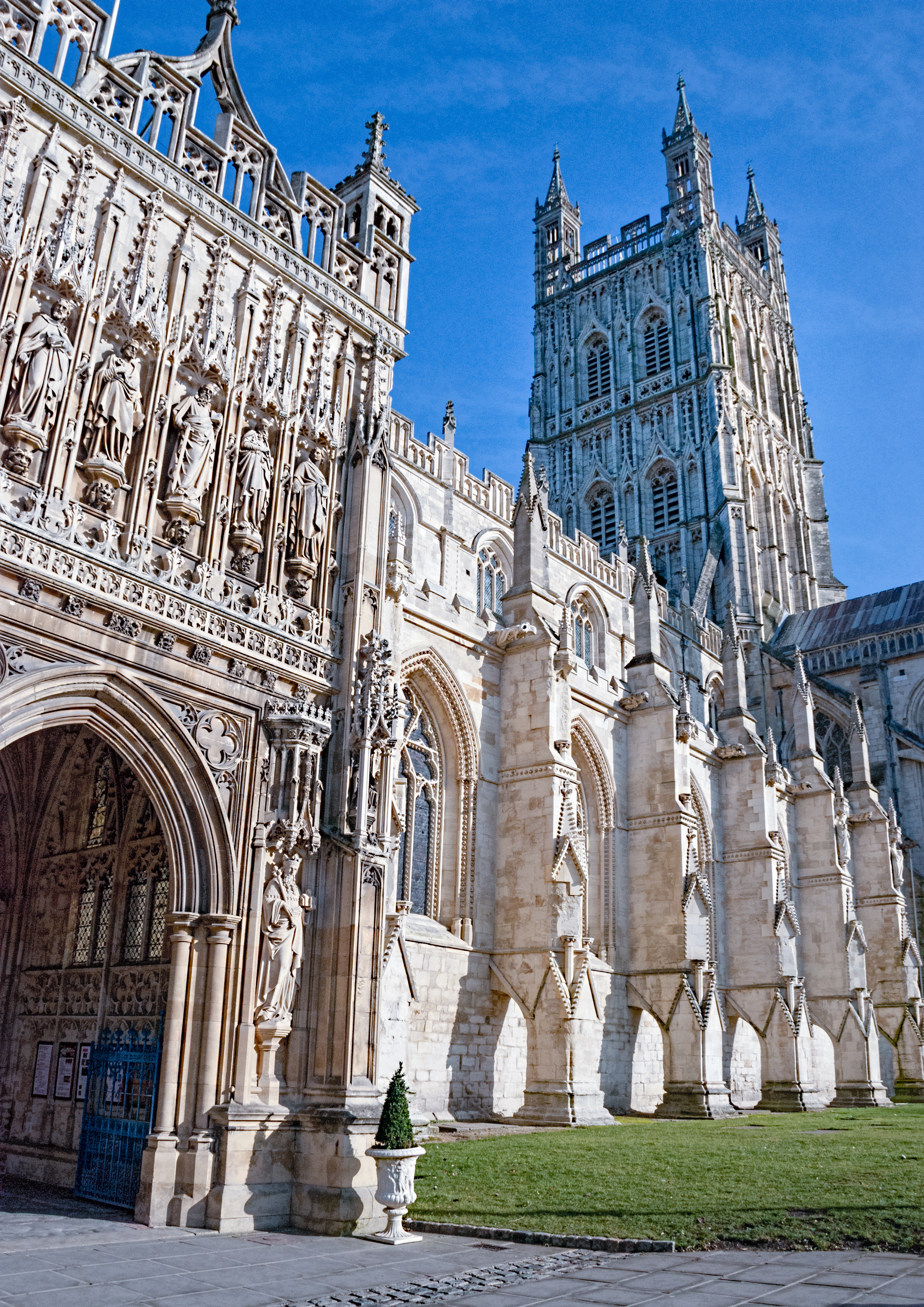 Gloucester cathedral